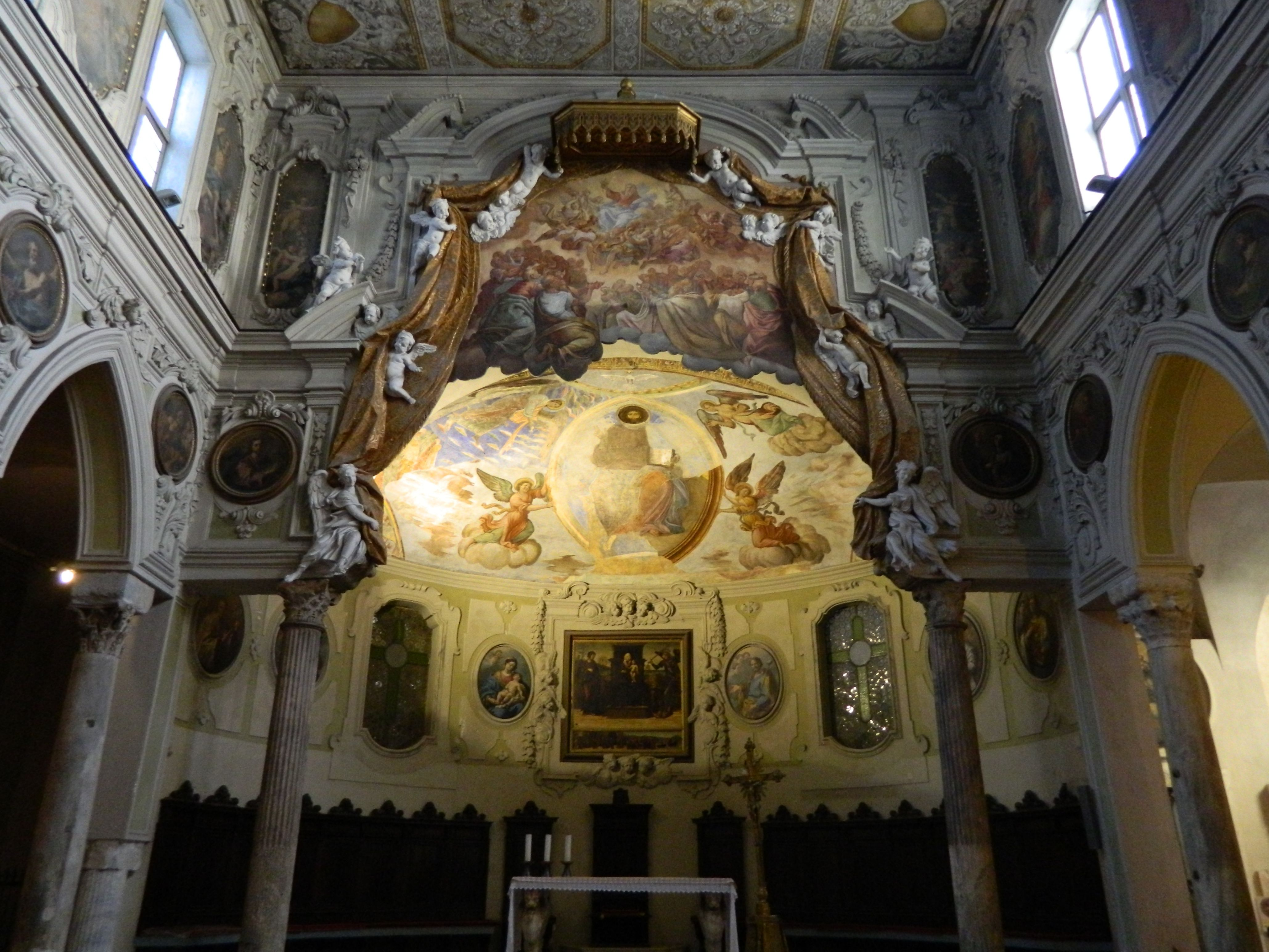 Duomo di Napoli - Basilica di Santa Restituta